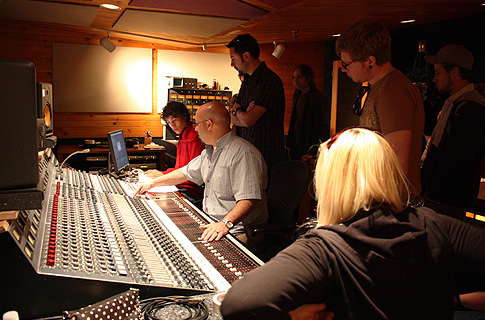 Metalworks Institute's recording studios for student use are equipped with SSL and ICON consoles, Pro Tools HD systems and a wide variety of industry standard microphones, plug-ins and vintage outboard equipment. The Institute has four professional recording studios dedicated to student use.